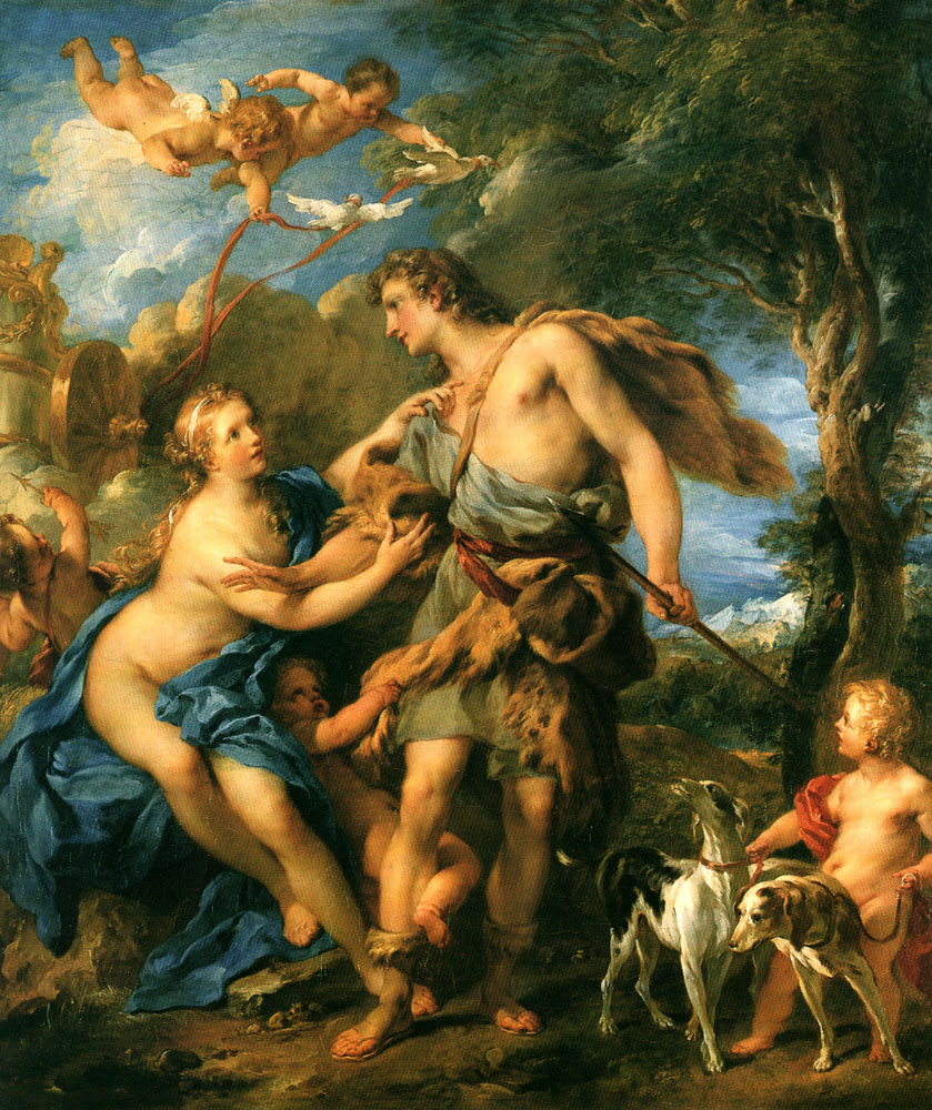 Venus and Adonis.Francois Lemyone 1729.